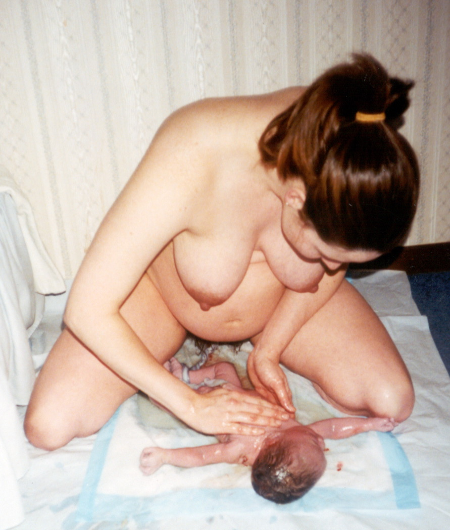 Lisa J. Patton and her newborn LaVergerray